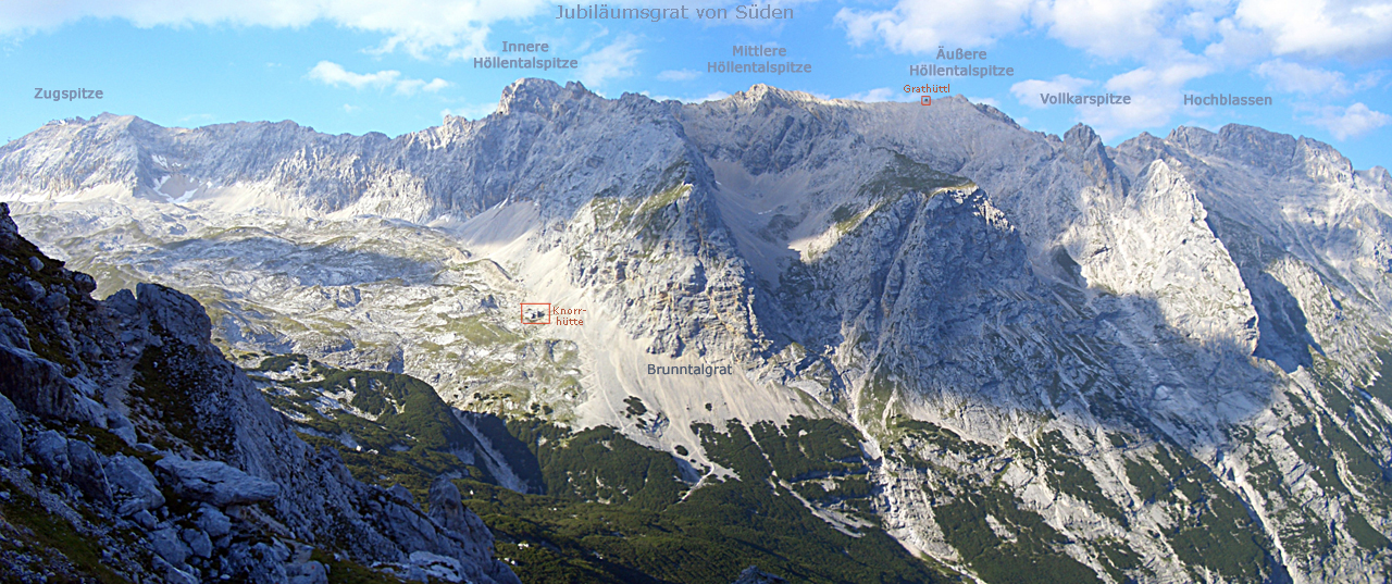 Jubiläumsgrat with Zugspitze, Innerer, Mittlerer, Äußerer Höllentalspitze, Vollkarspitze and Hochblassen from south (from Gatterl)